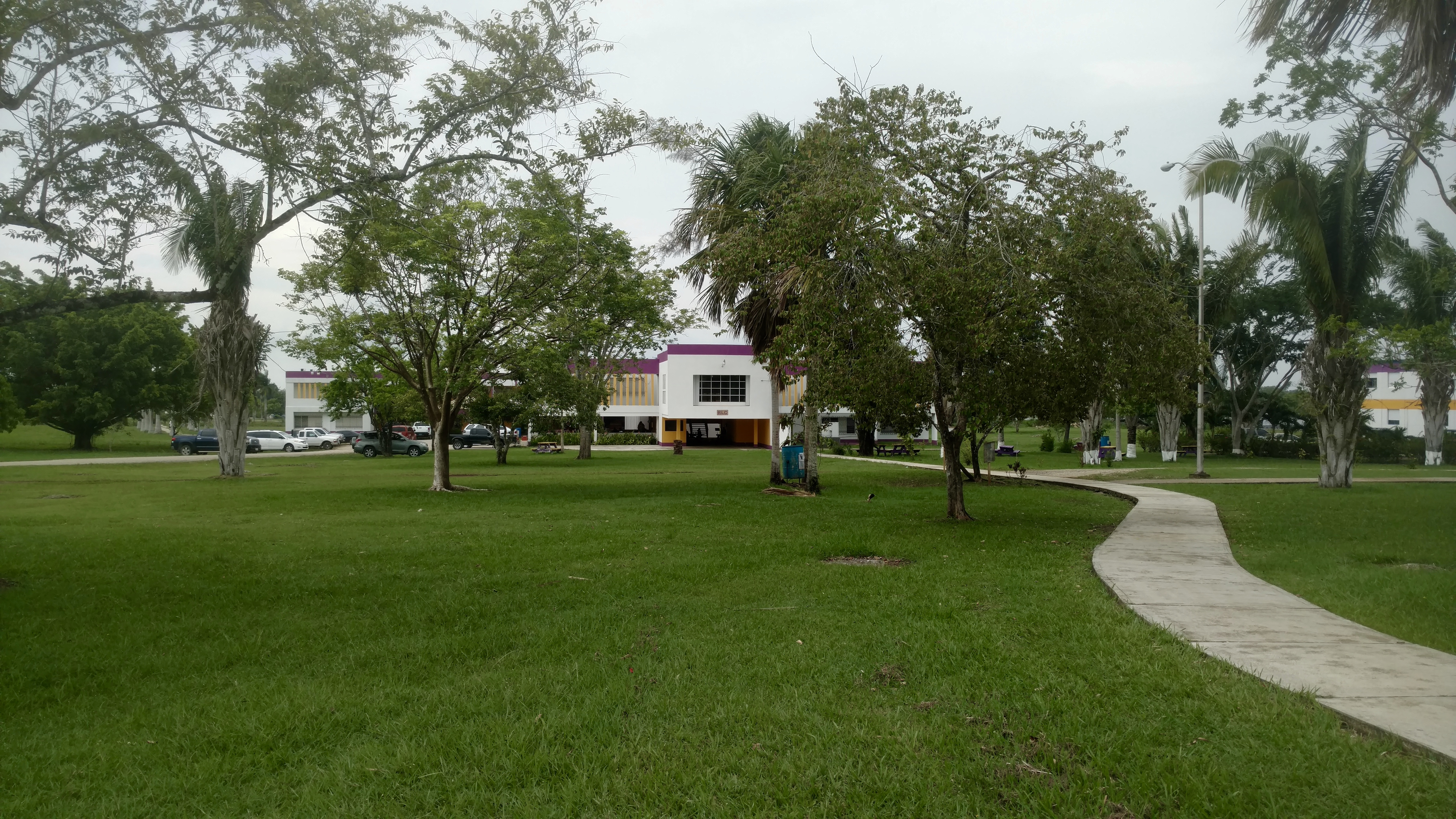 Part of the University of Belize's campus.